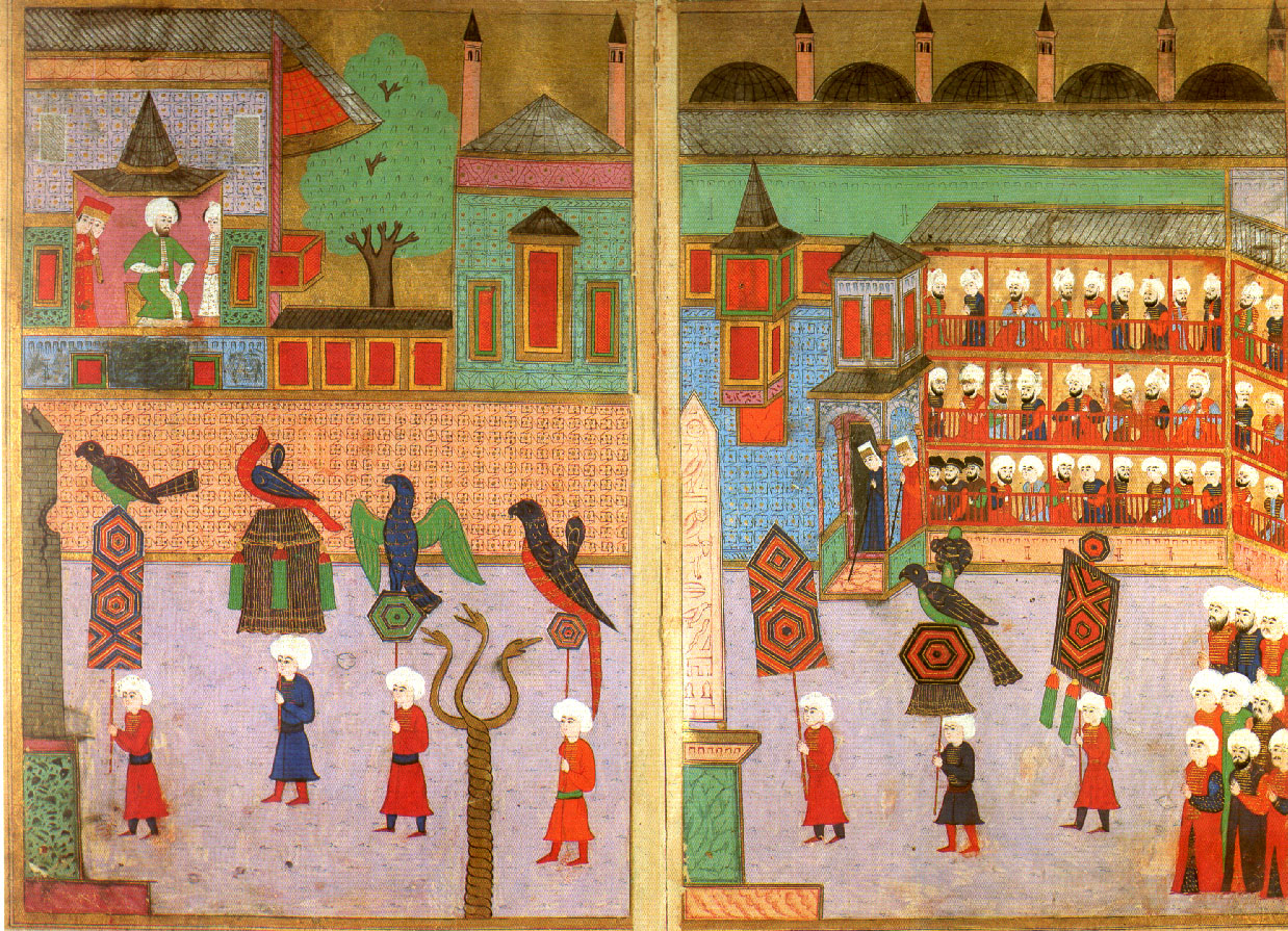 Image of a procession in the Hippodrome of Constantinople, showing the cloth-weavers in front of the Sultan. Ottoman miniature from the Surname-i Vehbi, kept at the Topkapı Sarayı Müzesi, Istanbul (Hazine 1344, folios 338b-39a)